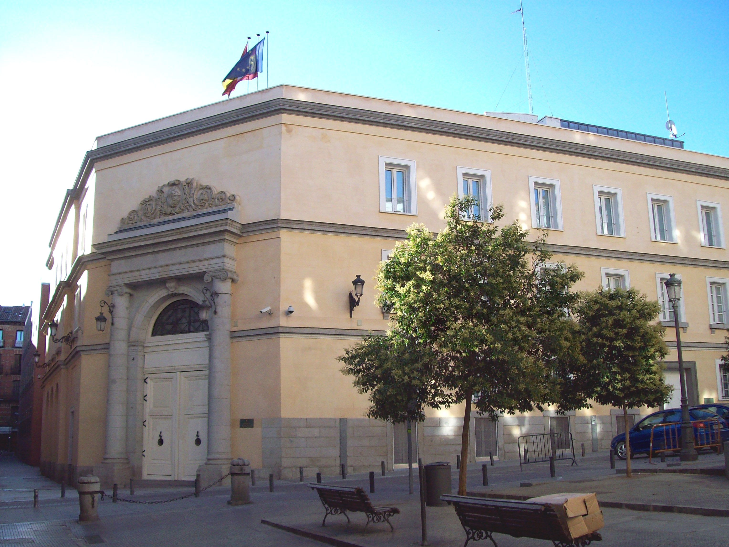 Façade of Real Casa de Postas in Madrid (Spain), at Plaza de Pontejos (square) in Centro district. Building was projected in 1795 by Juan Pedro Arnal and built between 1795 and 1800.